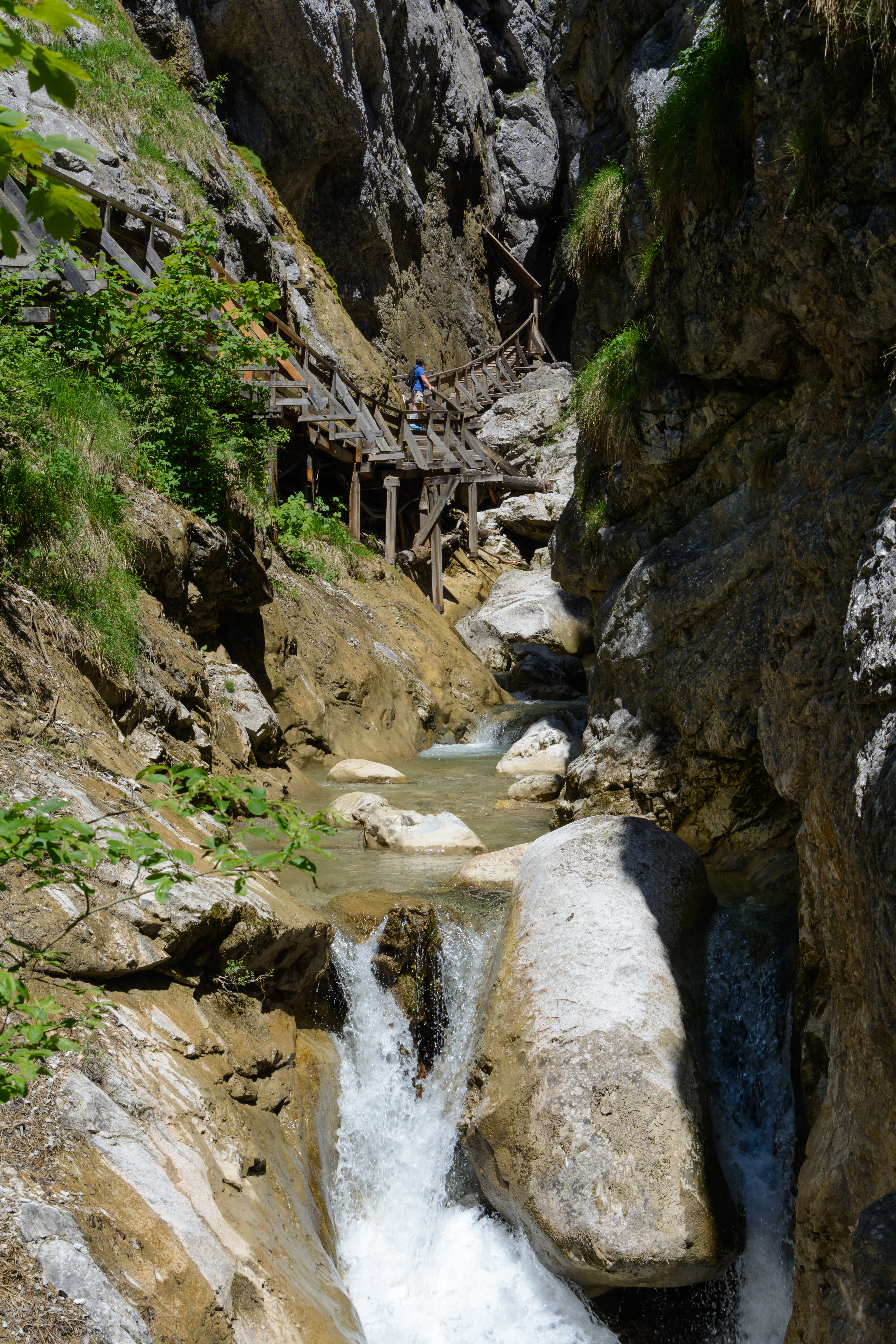 Wörschach gorge, Styria, Austria This media shows the natural monument in Styria with the ID 930.